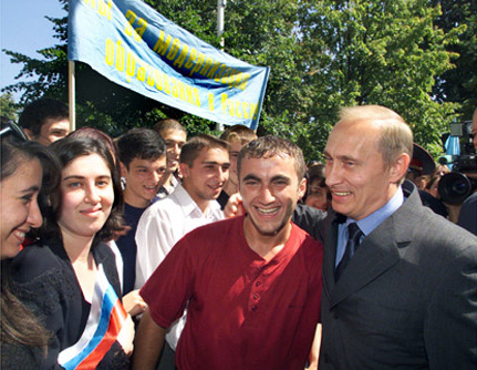 NALCHIK. President Vladimir Putin with Kabardino-Balkarian University students.